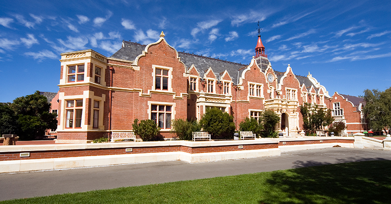 Released under CC BY per